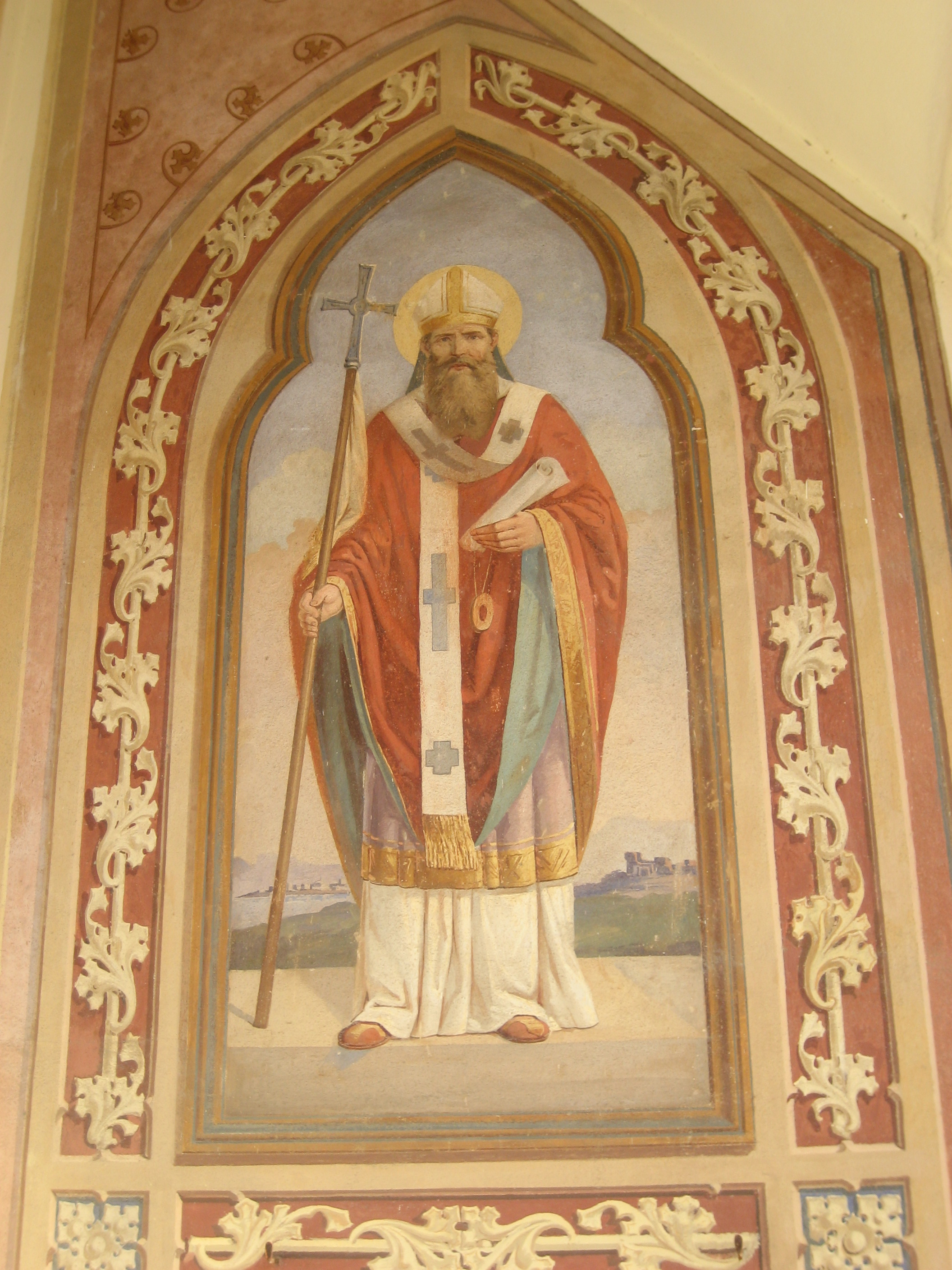 Jacobo Brollo, Saint Method in Saint Martin / Šentmartin near Frajnberk / Freudenberg North-East of Klagenfurt/Celovec, (1889)